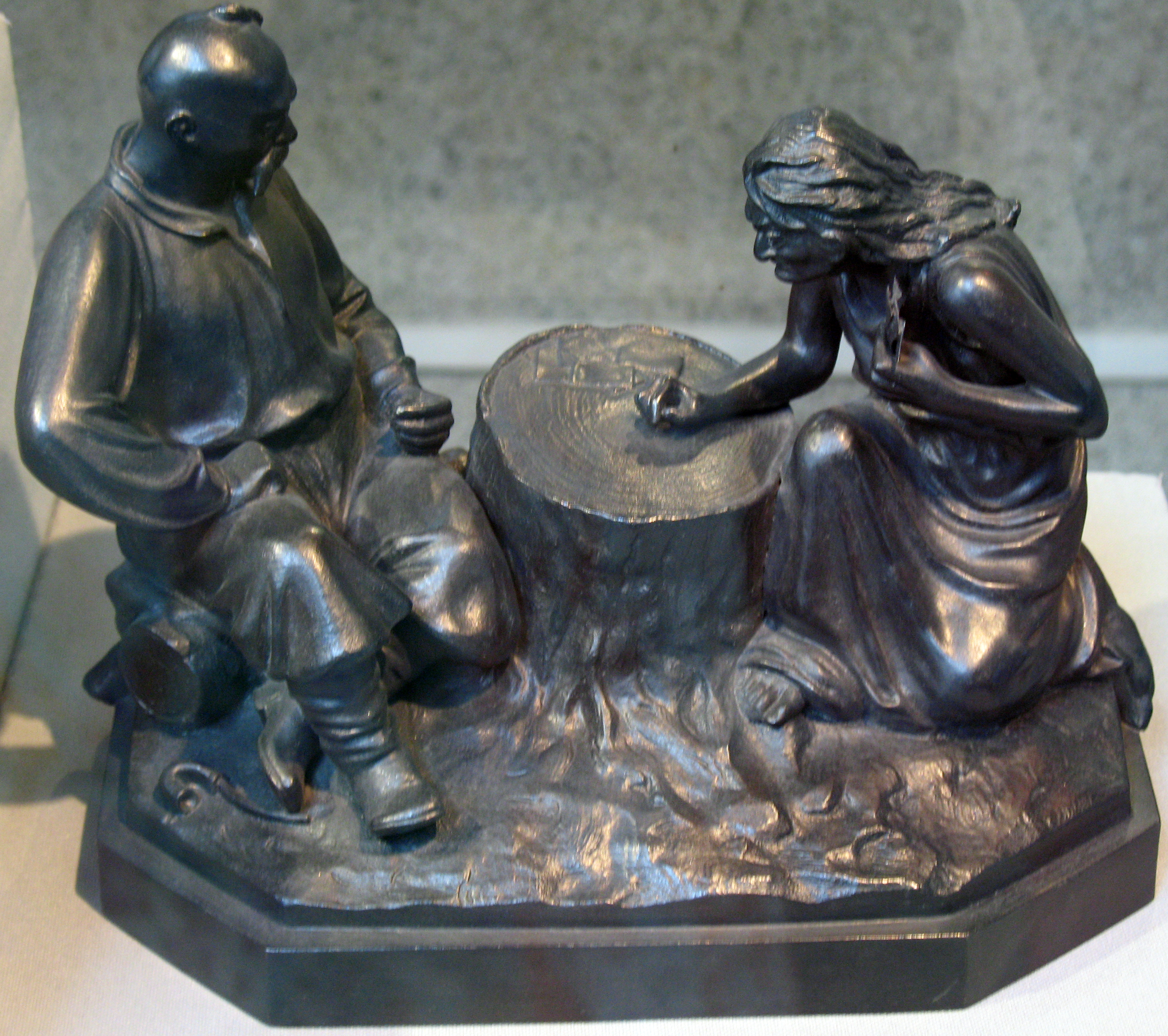 S.A. Ossovskaya: Cossack with a witch, 1900; Yekaterinburg Museum of Fine Arts, Russian Federation